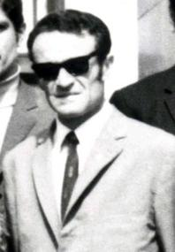 Zdravko Rajkov, Esteghlal (Taj)'s former head coach, pictured during Asian Champions League match in 1960's